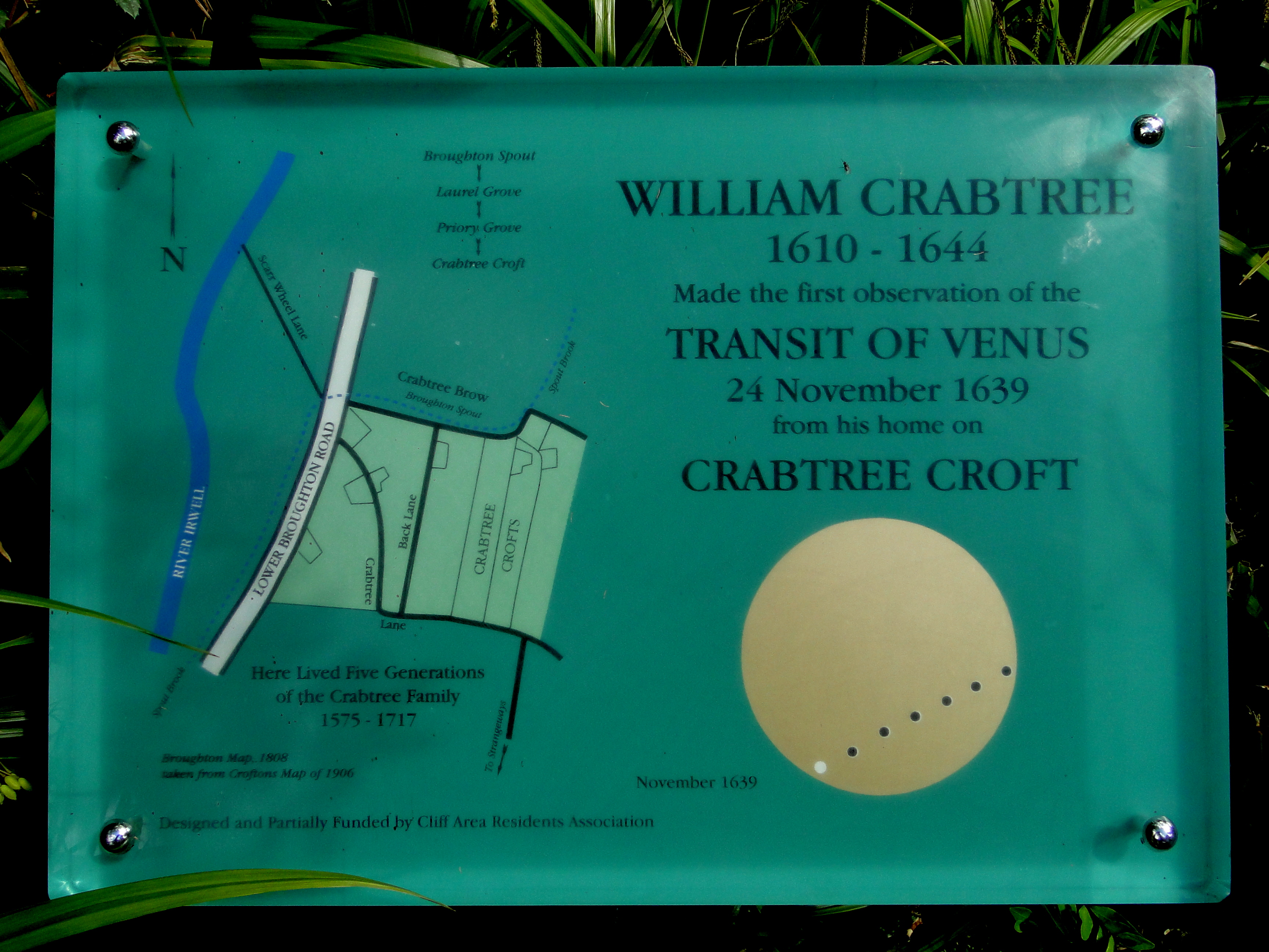 Commemorative sign outside Ivy Cottage in Broughton, Greater Manchester